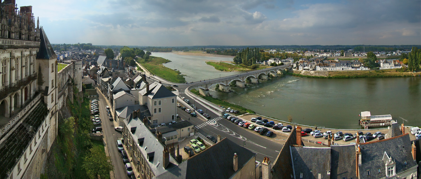 Amboise, Indre-et-Loire, Centre, France. The banks of the Loire and the Maréchal Leclerc Bridge seen from the Château d'Amboise.